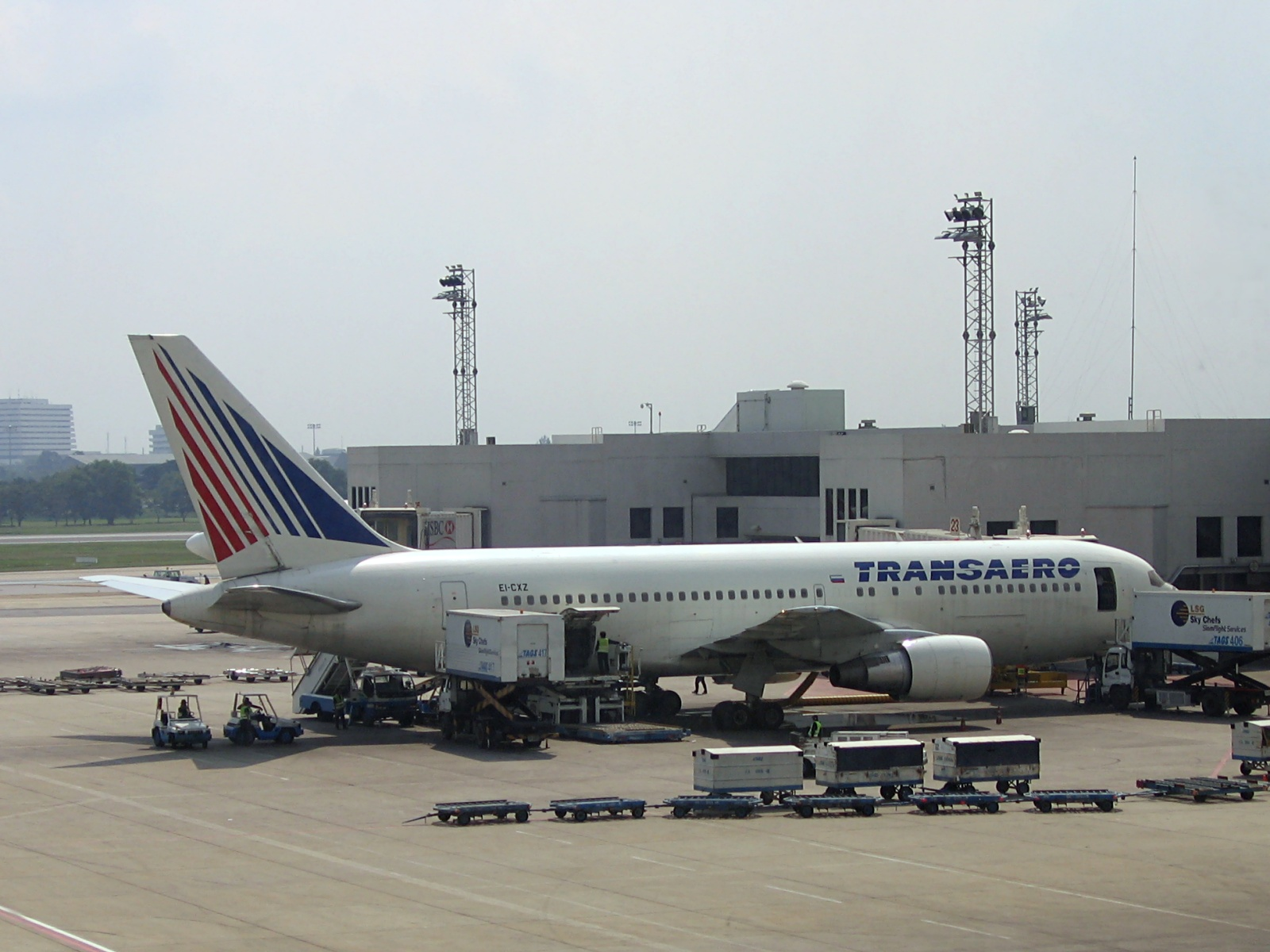 Transaero Airlines Boeing 767 (EI-CXZ) at Bangkok International Airport